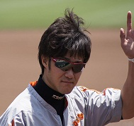 Yuya Kubo